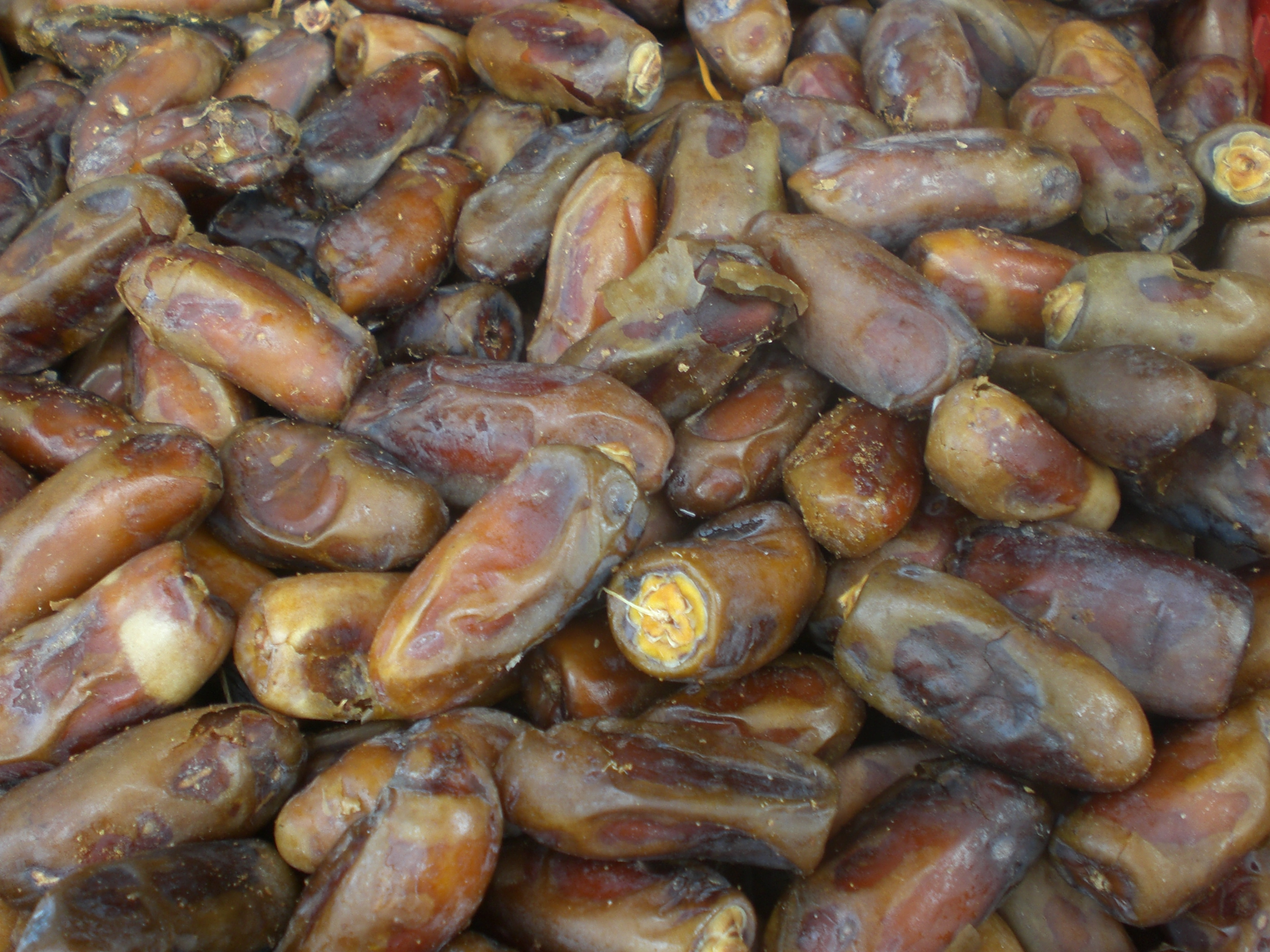 Lagou is a Tunisian date